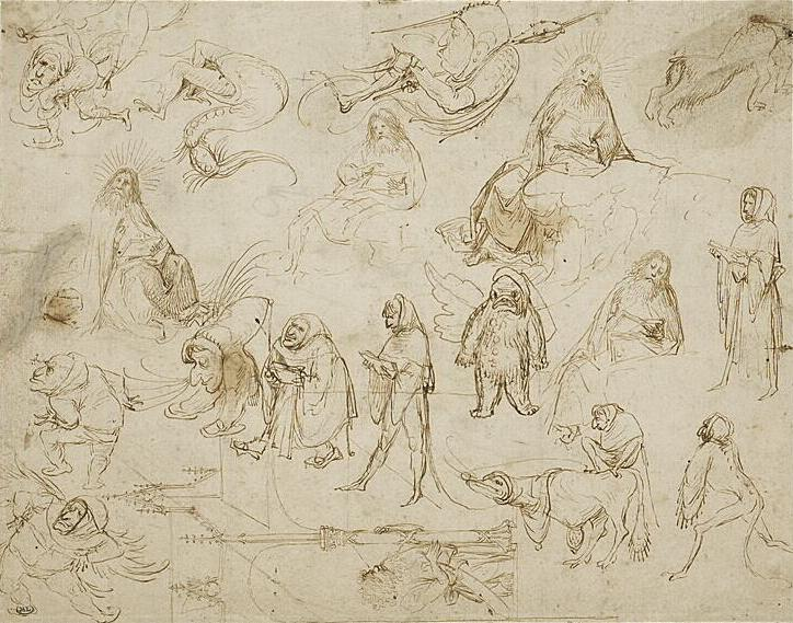 Front of a two-sided drawing. For the reverse, see File:Possibly Jheronimus Bosch 001 verso 01.jpg.